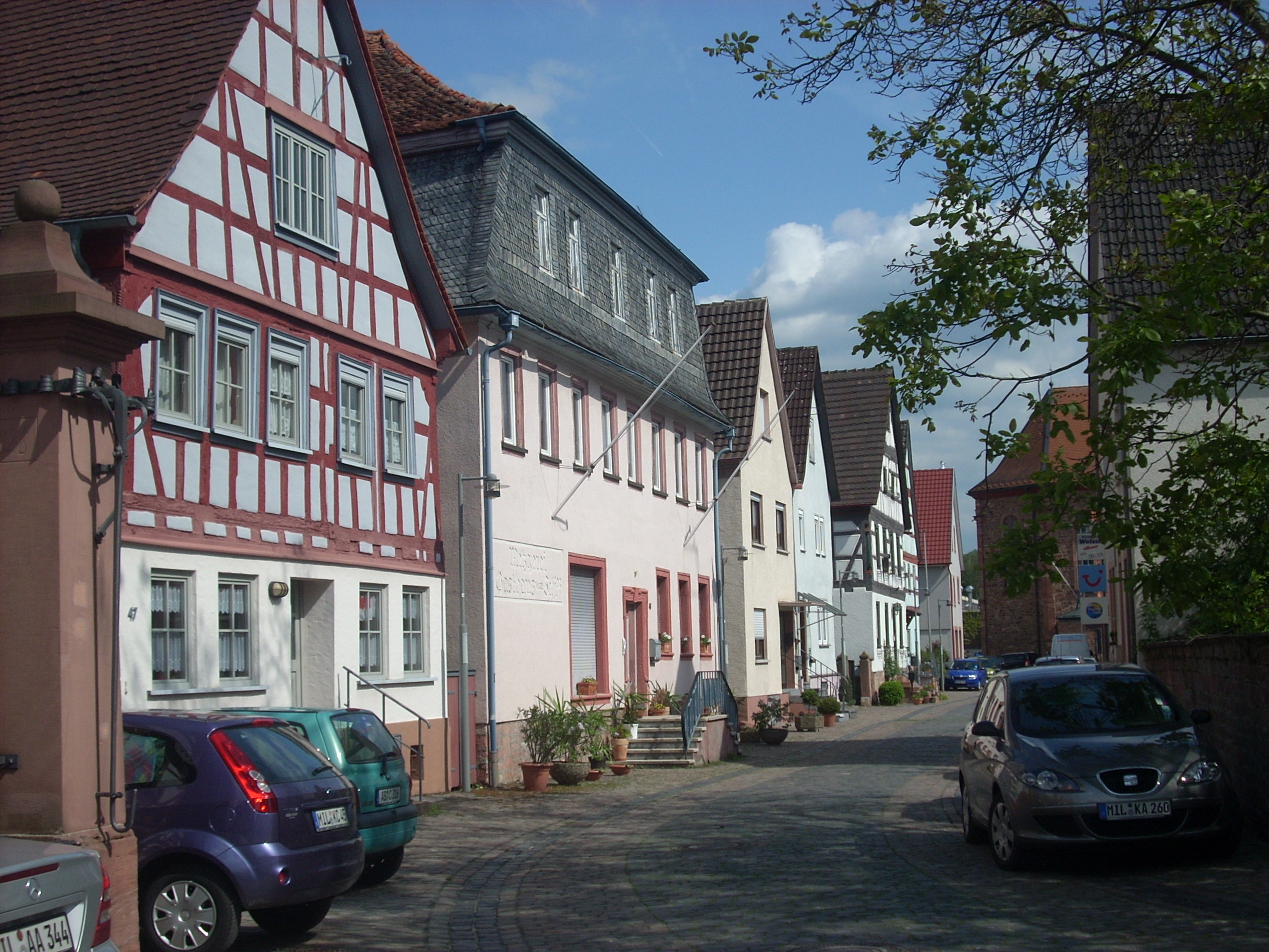 Wörth am Main